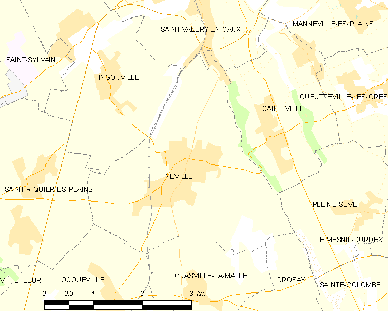 Map of French municipality Néville